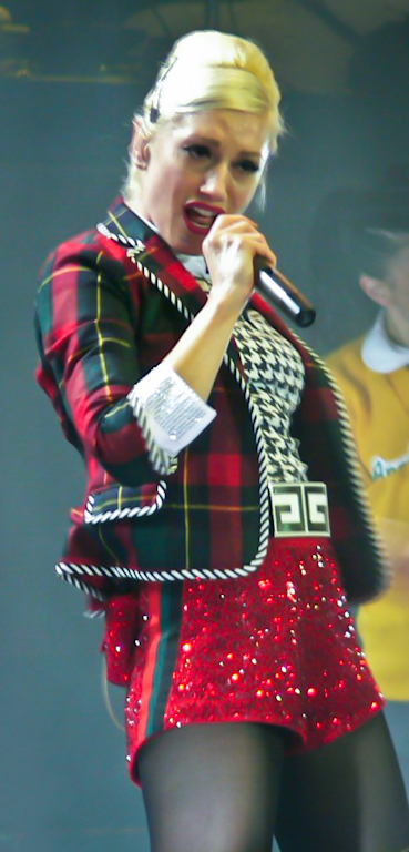 Gwen Stefani performing at the Cynthia Woods Mitchell Pavilion in Houston, Texas, United States